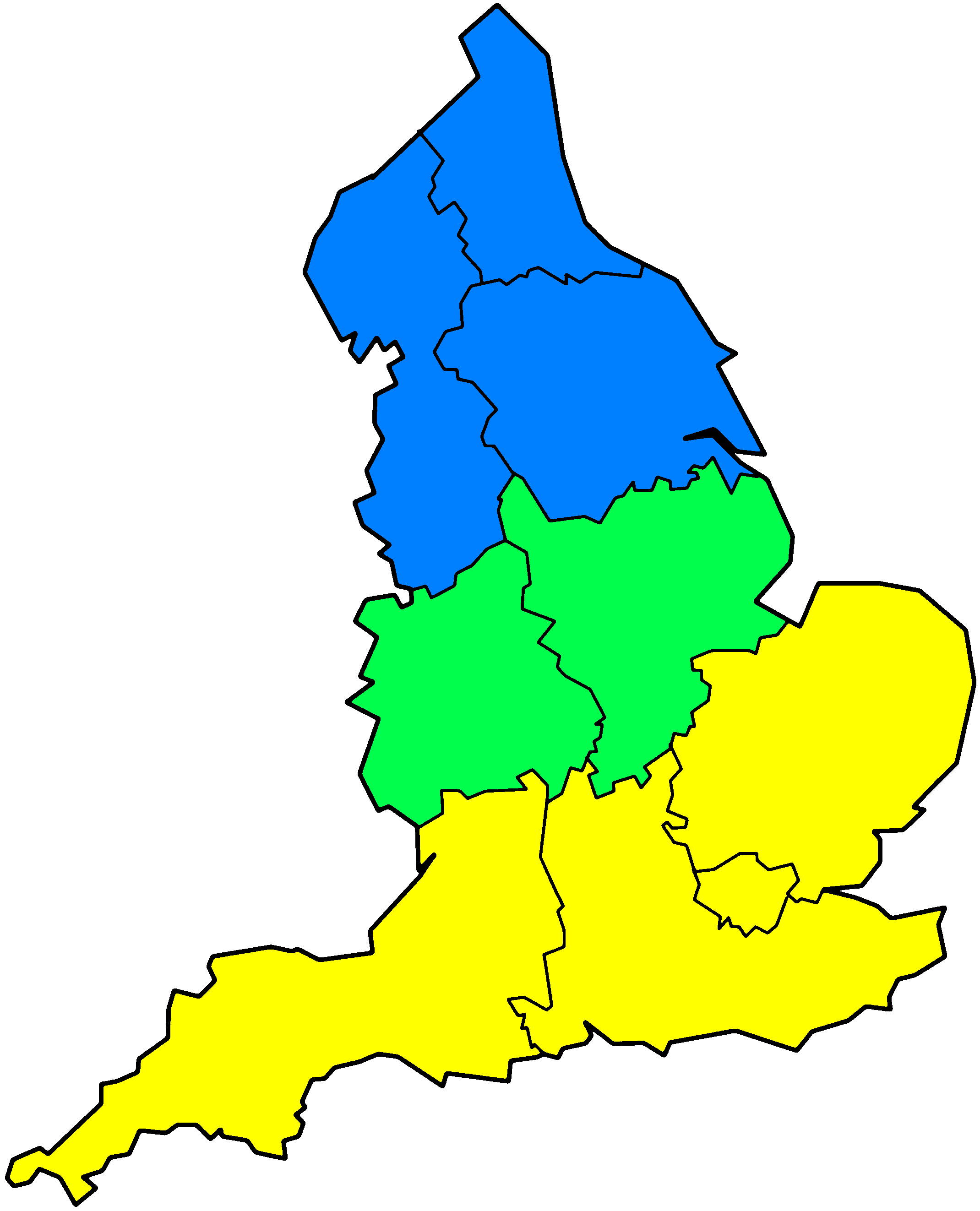 The North-South divide in the United Kingdom